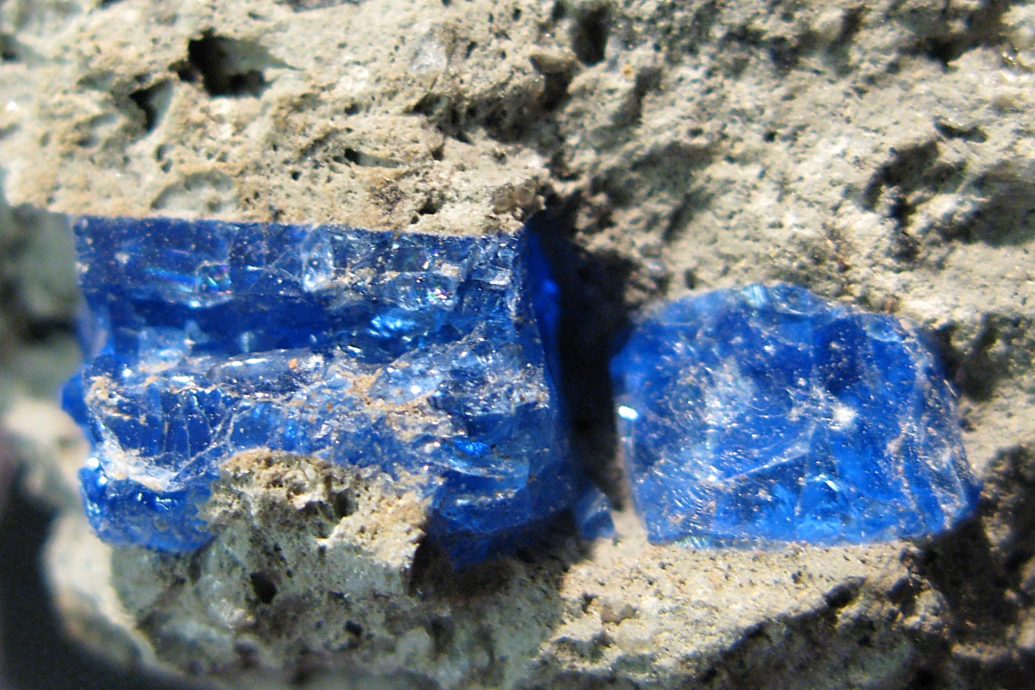 Haüyne in matrix Pumice, ca. 2 cm large